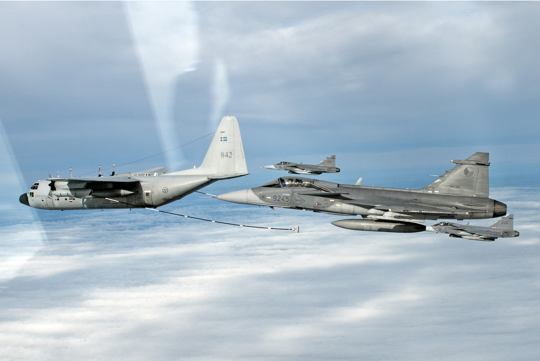 Saab JAS-39 of the Czech Air Force undergoing inflight refuelling from a TP 84 Hercules